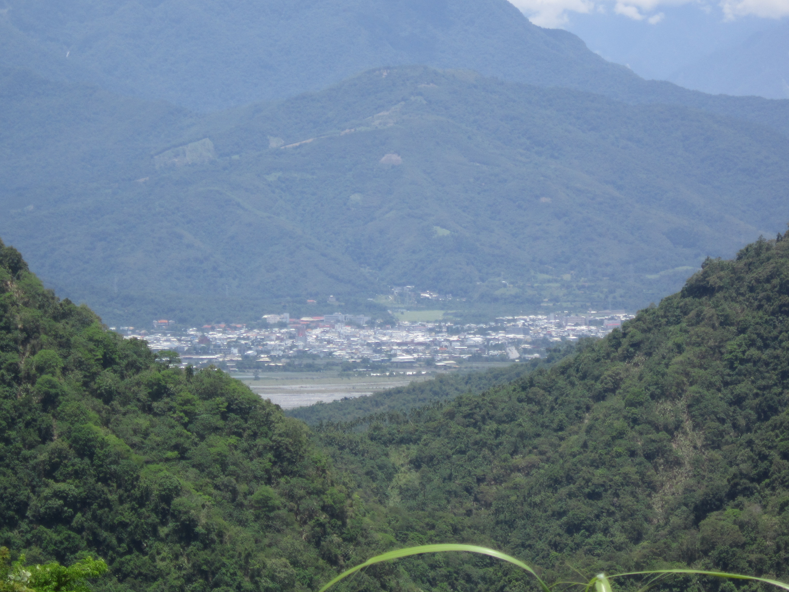 Yuli_Town_view